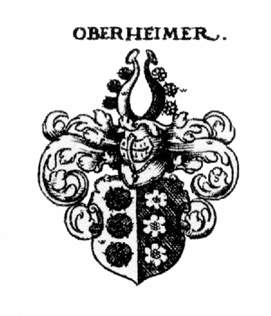 Coat of Arms of Oberheimer